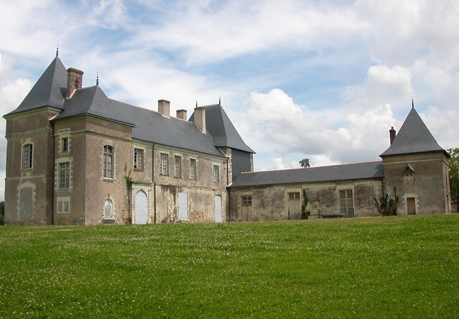 Castle of Saffré